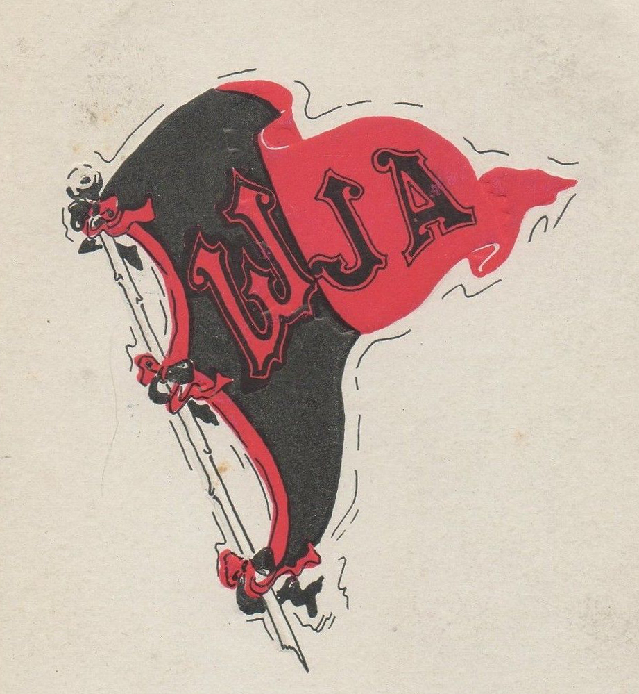 Postcard (cropped) is for Washington & Jefferson College's academy Washington & Jefferson Academy, which closed in 1912 [see History of Washington & Jefferson College#Moffatt]